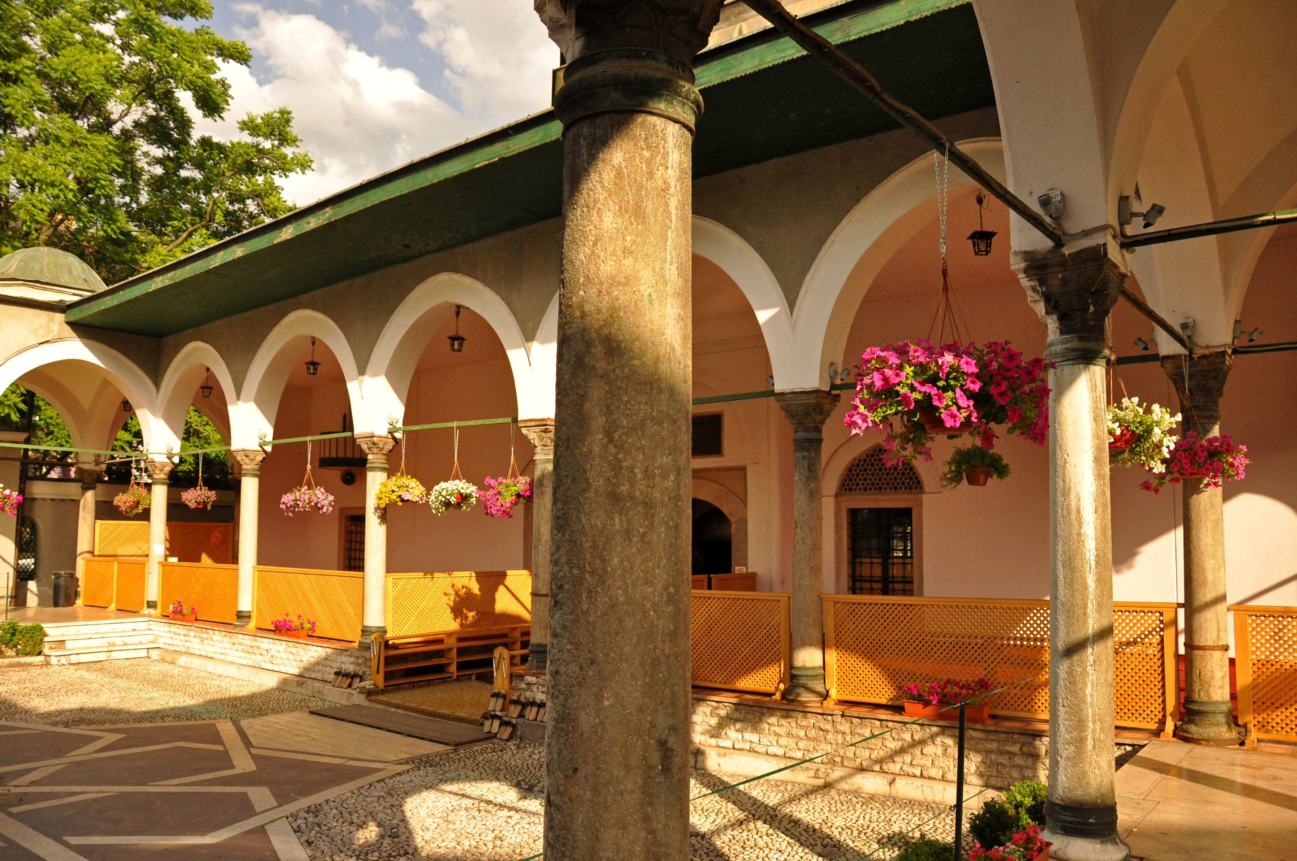 Built in 1566 on a site of the former mosque by Isa-Bey Ishakovic in 1457, the mosque was dedicated to Fatih Sultan Mehmet II and therefore later became known among people as the Tsar’s mosque. The original mosque was a complex with additional amenities such as saray (this means “court”—the name of Sarajevo derives from “saray”) and bridge. Osman Sehdi Bjelopoljac built a library in the mosque’s yard in 1759—this was the first public library in Sarajevo. In 1853 Fadil-pasha Serifovic built a muvekithana (observatory) used to measure time by the position of the stars and in 1857/58 he built a madrasah (Secondary Islamic School). Both were pulled down in 1910 in order to built the Residence of the Grand Mufti designed by Karel Pařik. The yard has over a hundred tombs, one of them assumed to belong to Isa-bey Ishakovic.